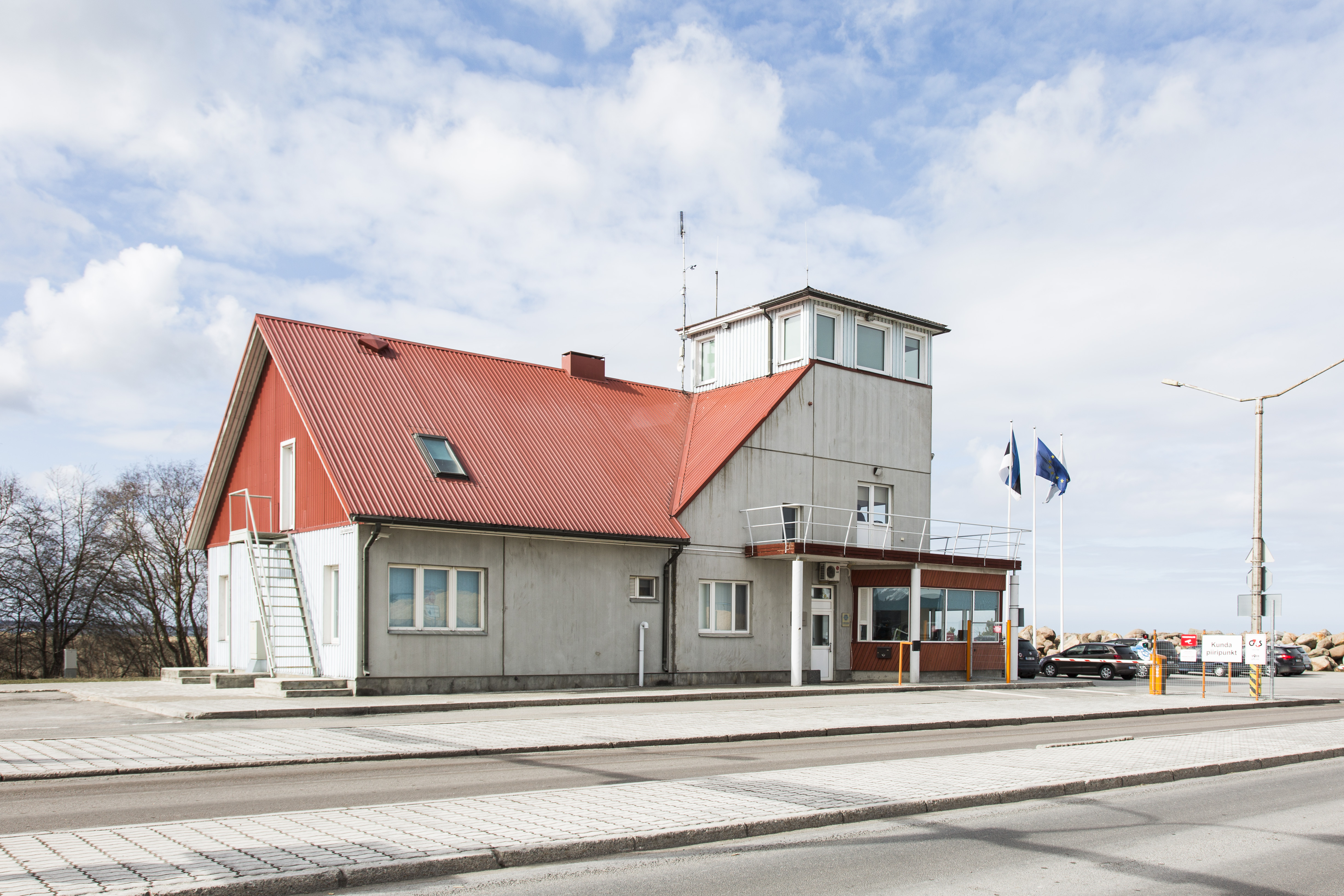 Administrative building in Port of Kunda.